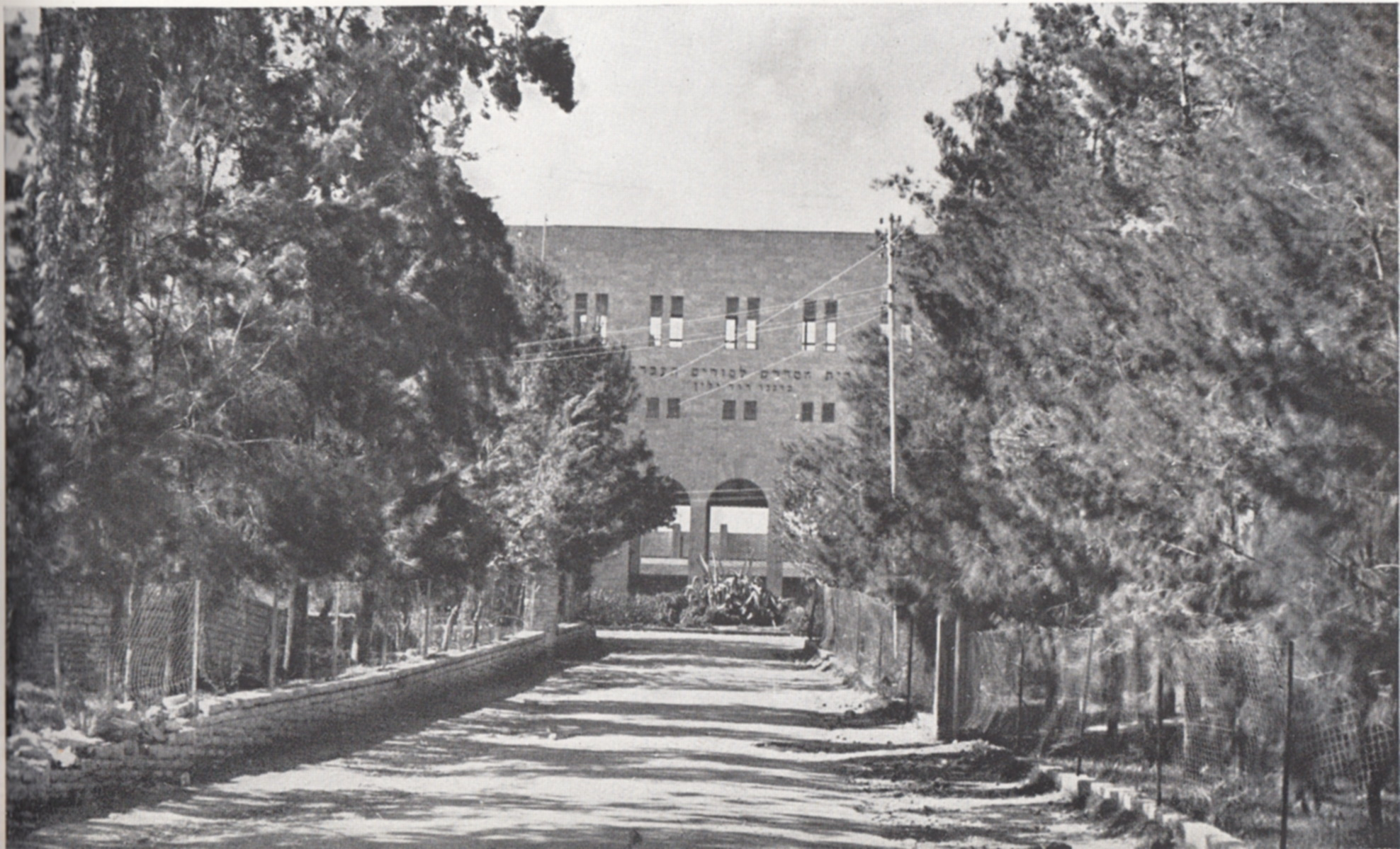 Teacher Training College Building, Cities in Israel